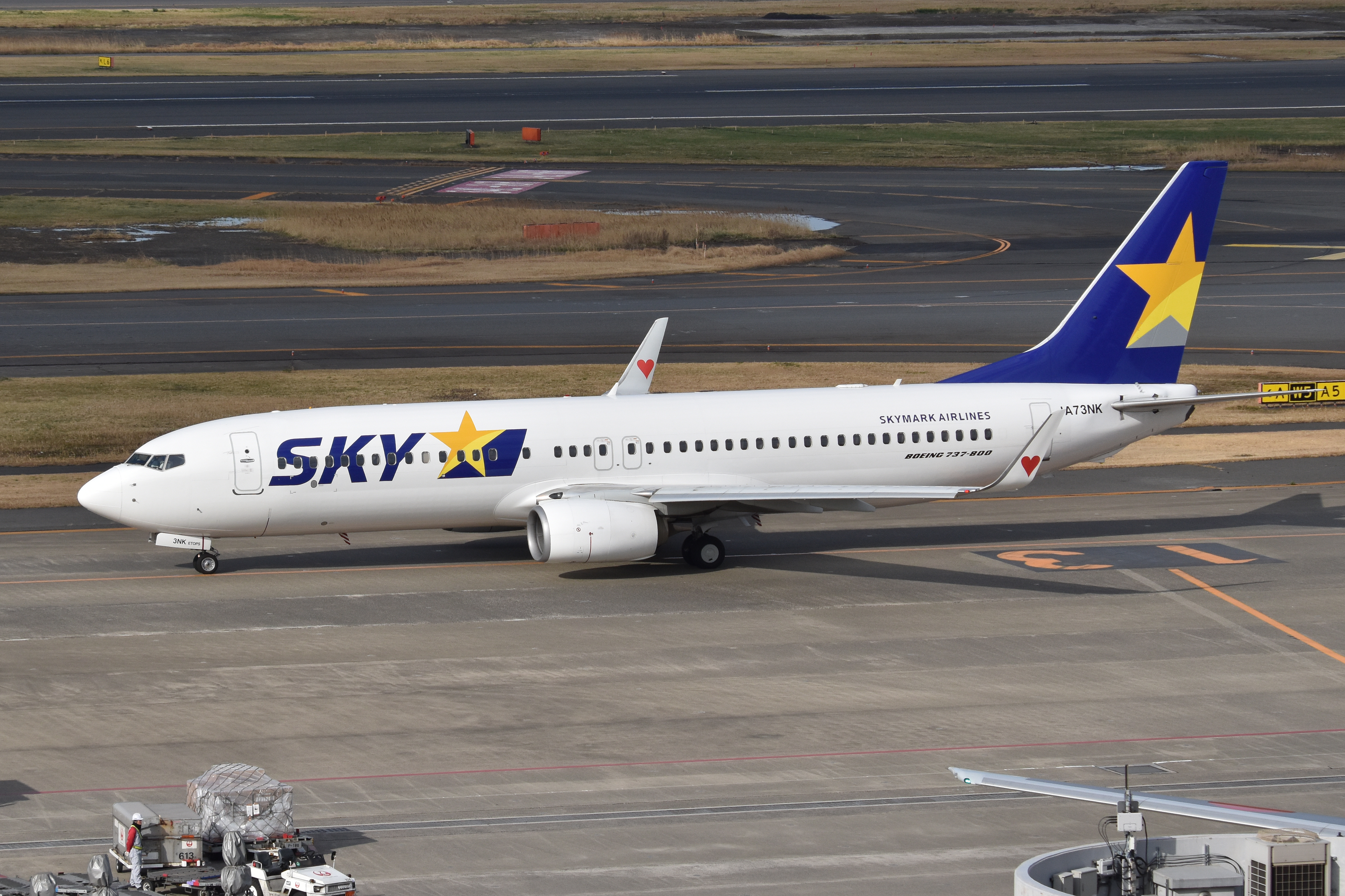 c/n 38023, l/n 3883 Built 2011 Seen taxiing out to depart on flight BC513 / SKY513 to Naha Haneda International Airport Tokyo, Japan 12th March 2019